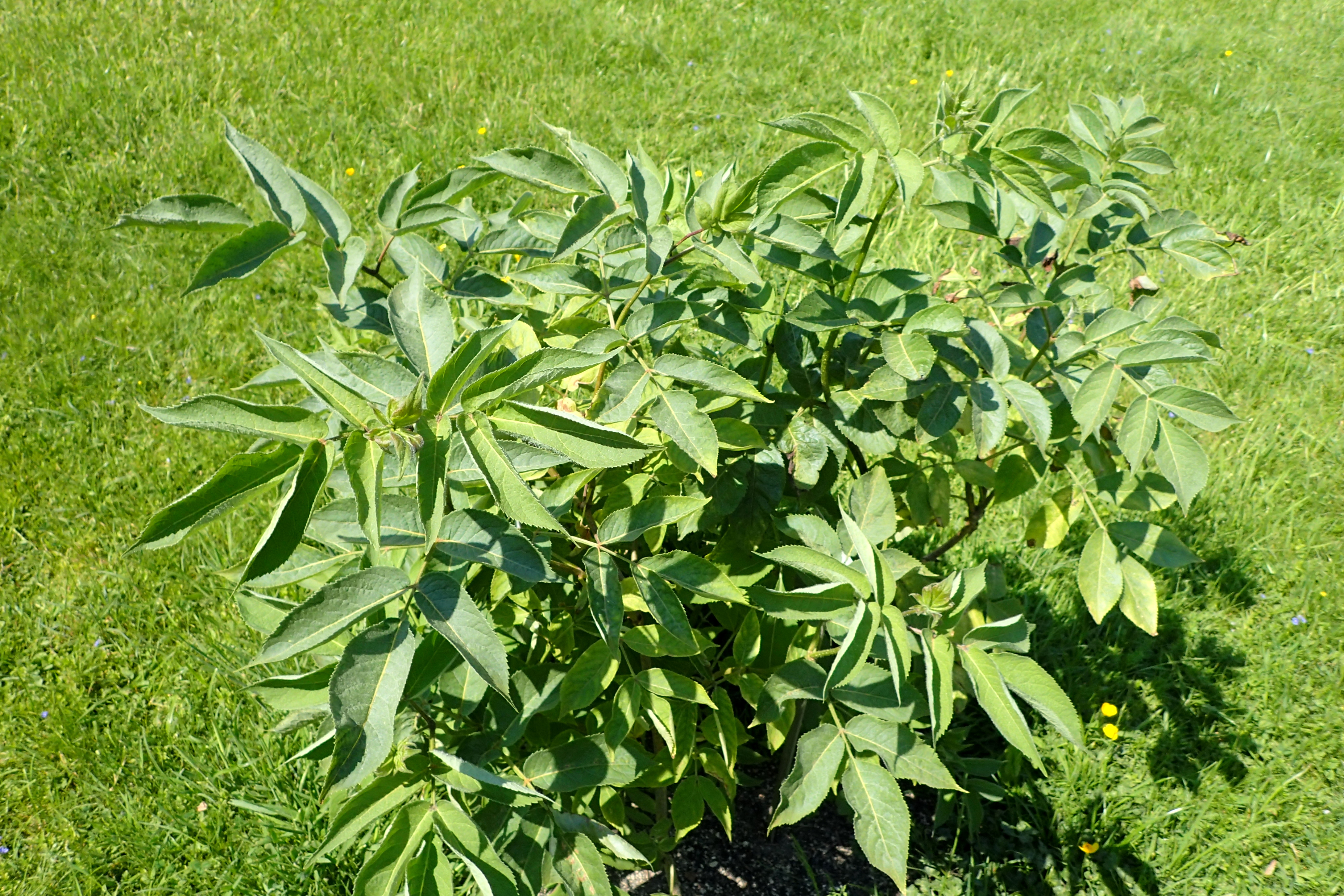 Sambucus sibirica in the Botanischer Garten, Berlin-Dahlem